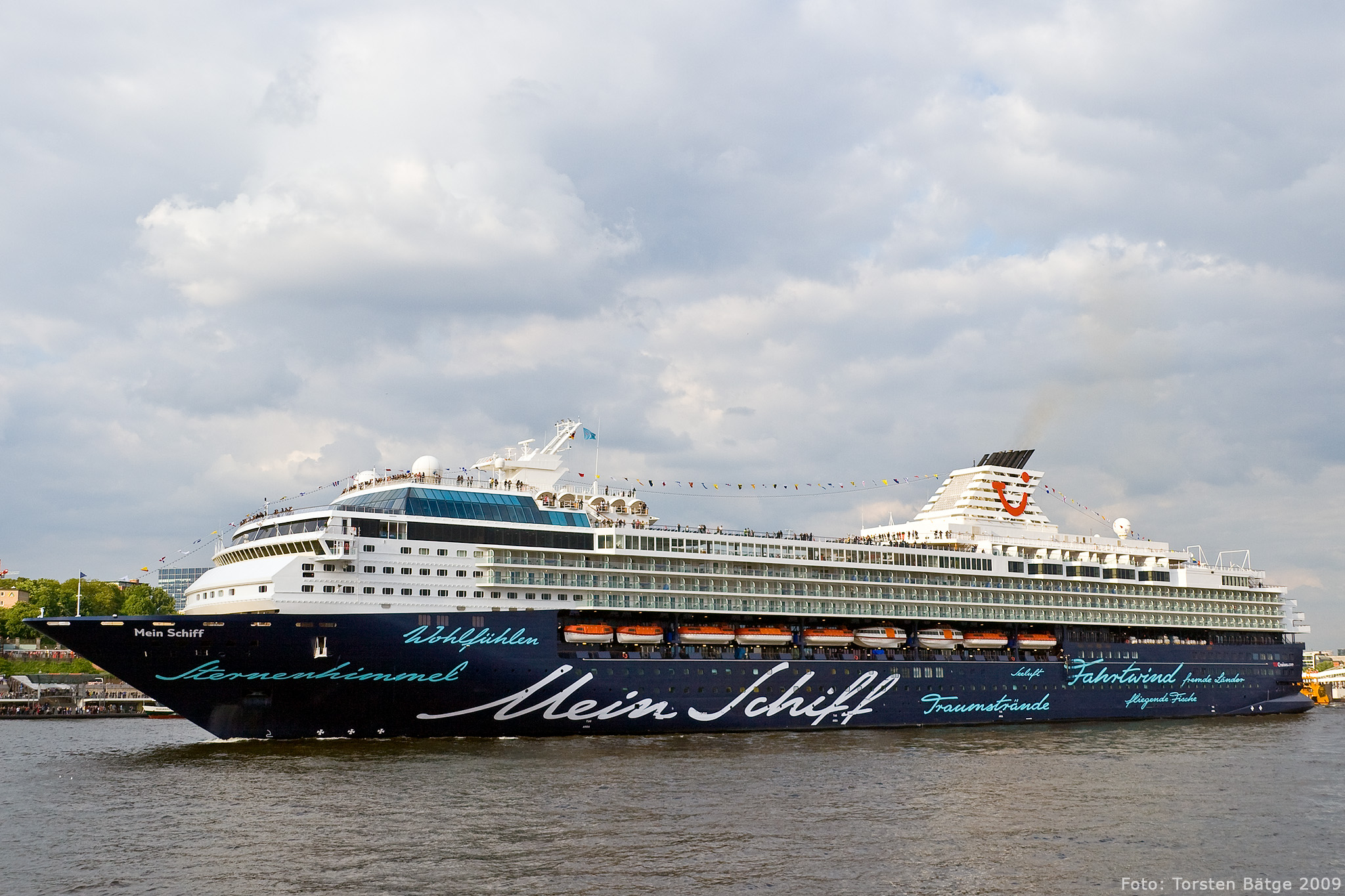 The Mein Schiff (ex Celebrity Galaxy) of the TUI Cruises leaves the Port of Hamburg, Germany.